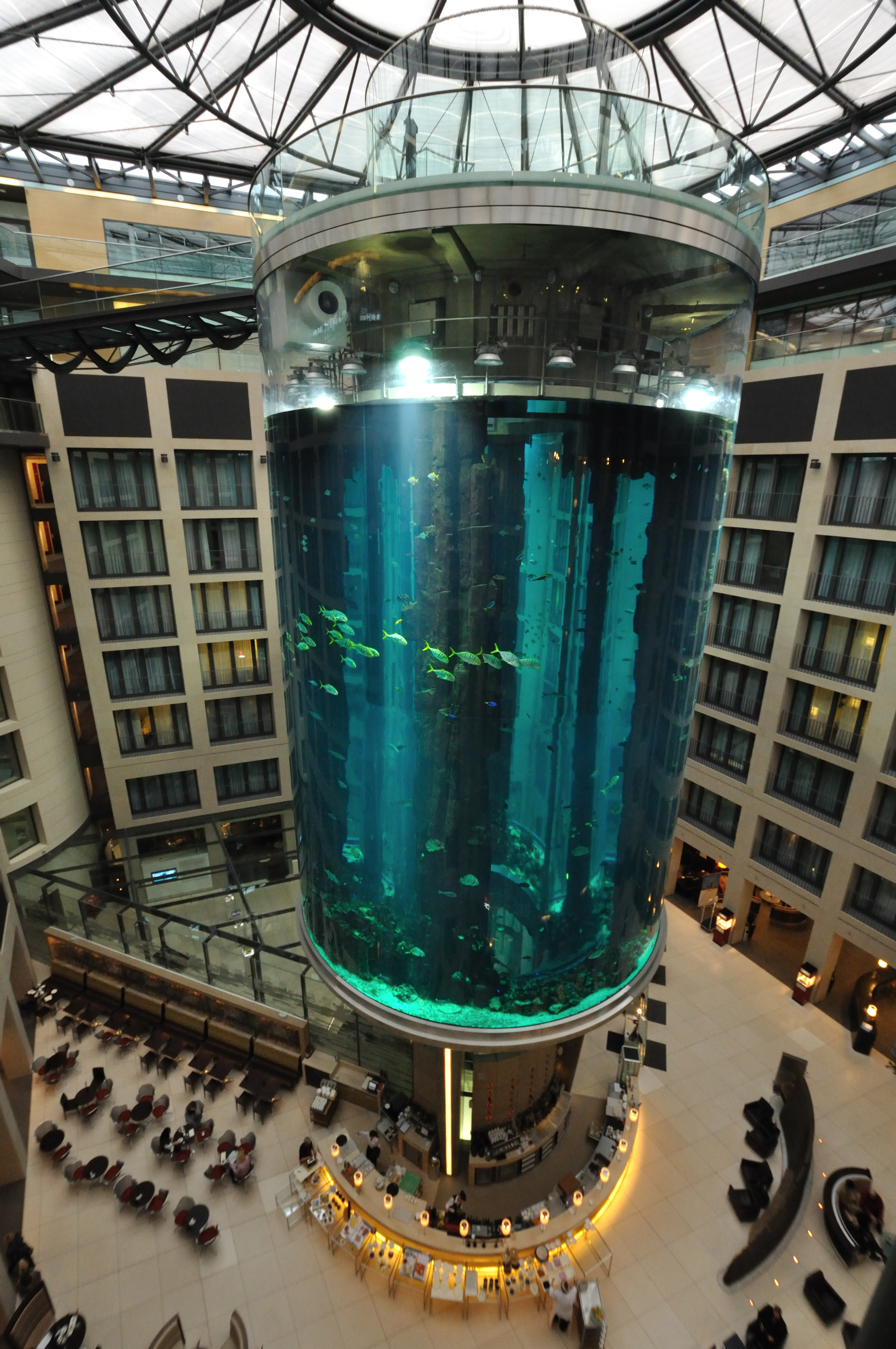 Radisson SAS AquaDom in Berlin, Germany. (10mm f/8.0 ISO-1250 0-EV) - View from a room on the sixth floor of the Radisson SAS